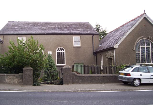 Chapel. Chapel at Ffos-Y-ffin